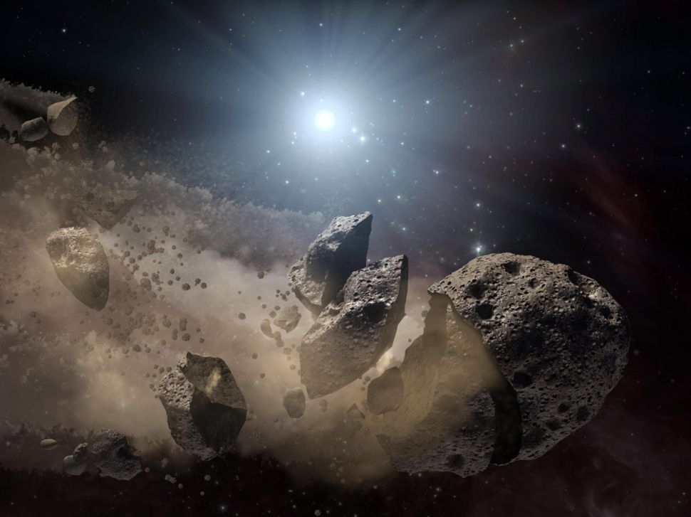 Asteroid Disrupted By Star - Artist Concept[1][2] References ↑ Letzer, Rafi (17 October 2019). "An Asteroid-Smashing Star Ground a Giant Rock to Bits and Covered Itself in the Remains". LiveScience. Retrieved on 17 October 2019. ↑ Wang, Ting-gui (10 October 2019). An On-going Mid-infrared Outburst in the White Dwarf 0145+234: Catching in Action of Tidal Disruption of an Exoasteroid?. Retrieved on 17 October 2019.